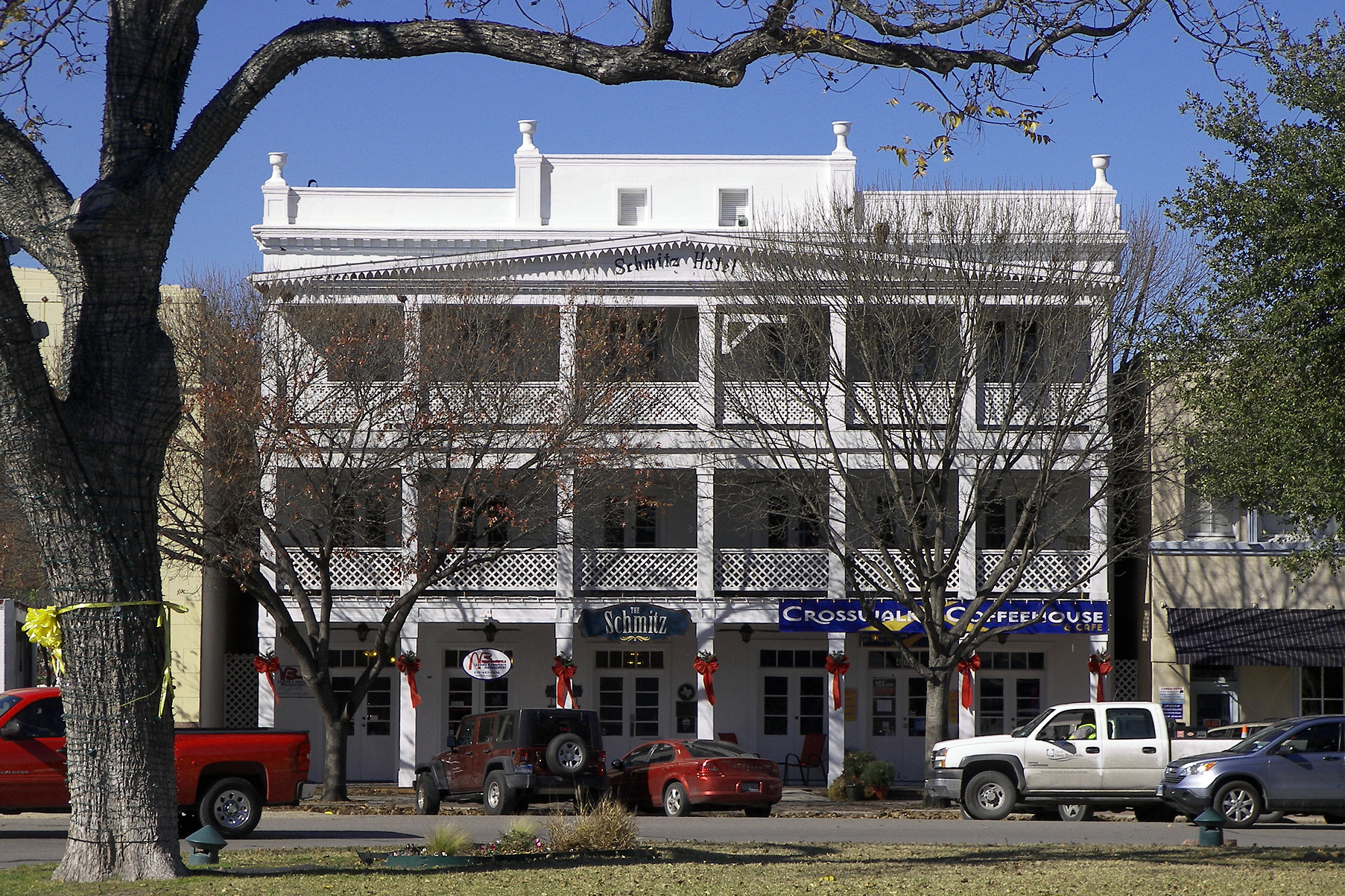 The Guadalupe Hotel in New Braunfels, Texas, United States. It was added to the National Register of Historic Places on March 13, 1975..